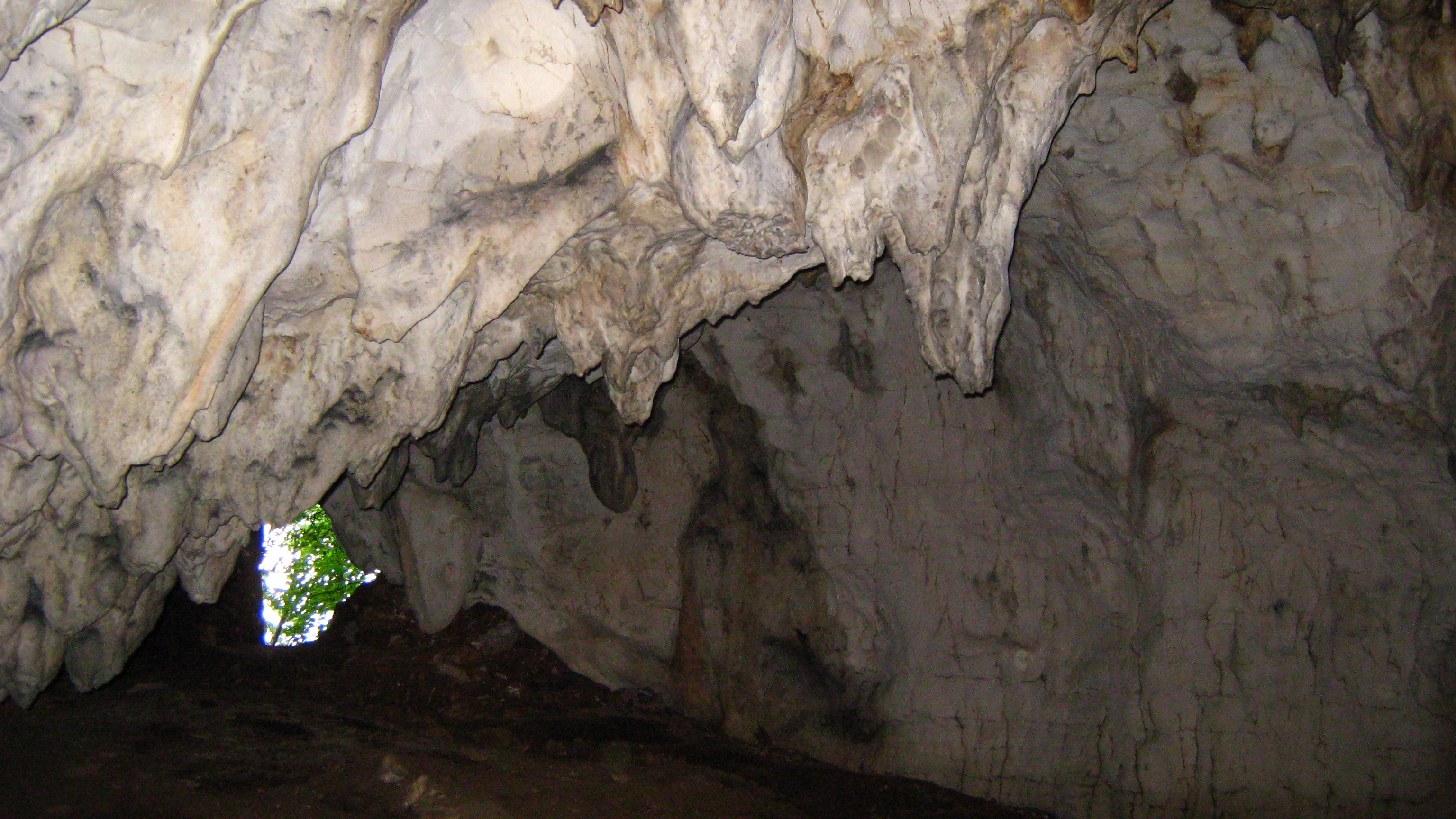 Rastuska pecina 4